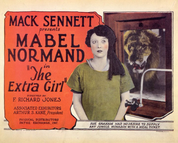 Lobby card for the American comedy film The Extra Girl (1923). In the background is Numa the Lion.